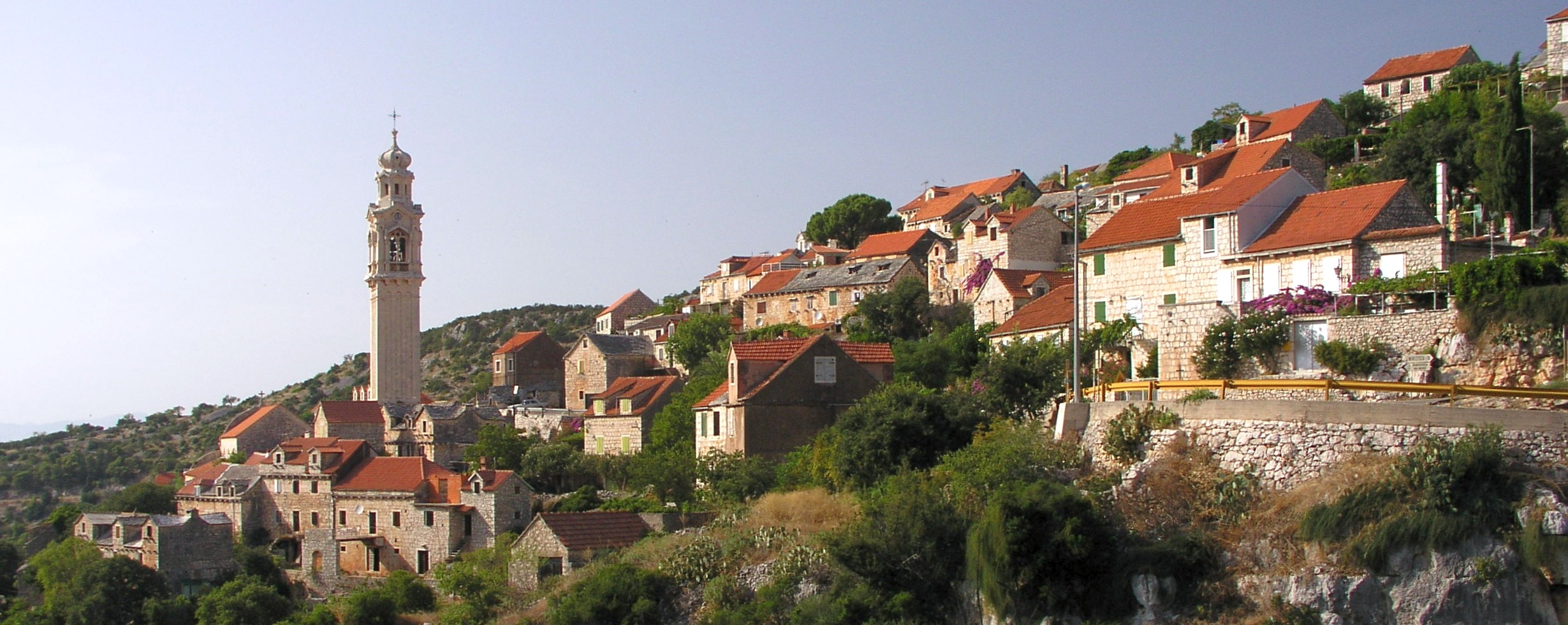 Ložišća Village, Brač Island, Croatia